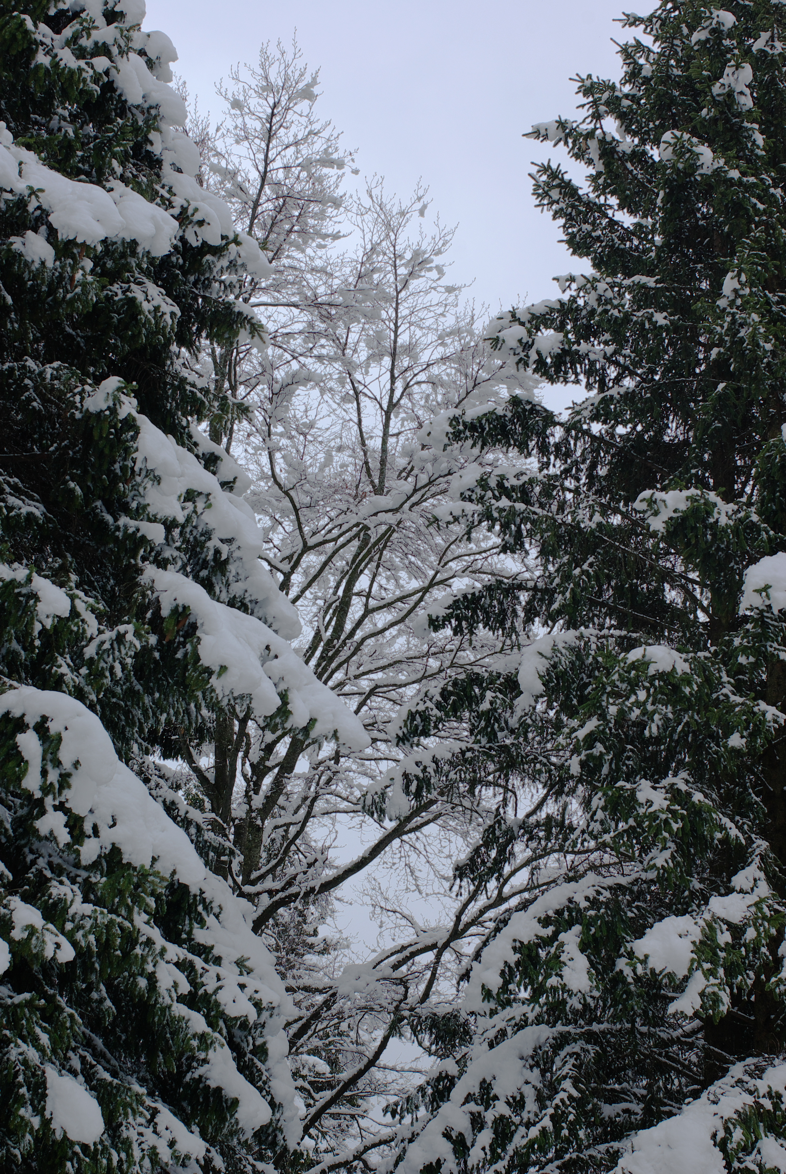 Bosco Chiesanuova (Grietz Dossetti Tinazzo) Lessinia VR Italy 2013-04-01 photo CTG ACA LESSINIA Paolo Villa